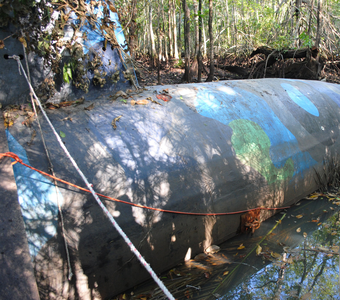 A fully-operational submarine built for the primary purpose of transporting multi-ton quantities of cocaine located near a tributary close to the Ecuador/Colombia border that was seized by the Ecuador Anti-Narcotics Police Forces and Ecuador Military authorities with the assistance of the DEA.